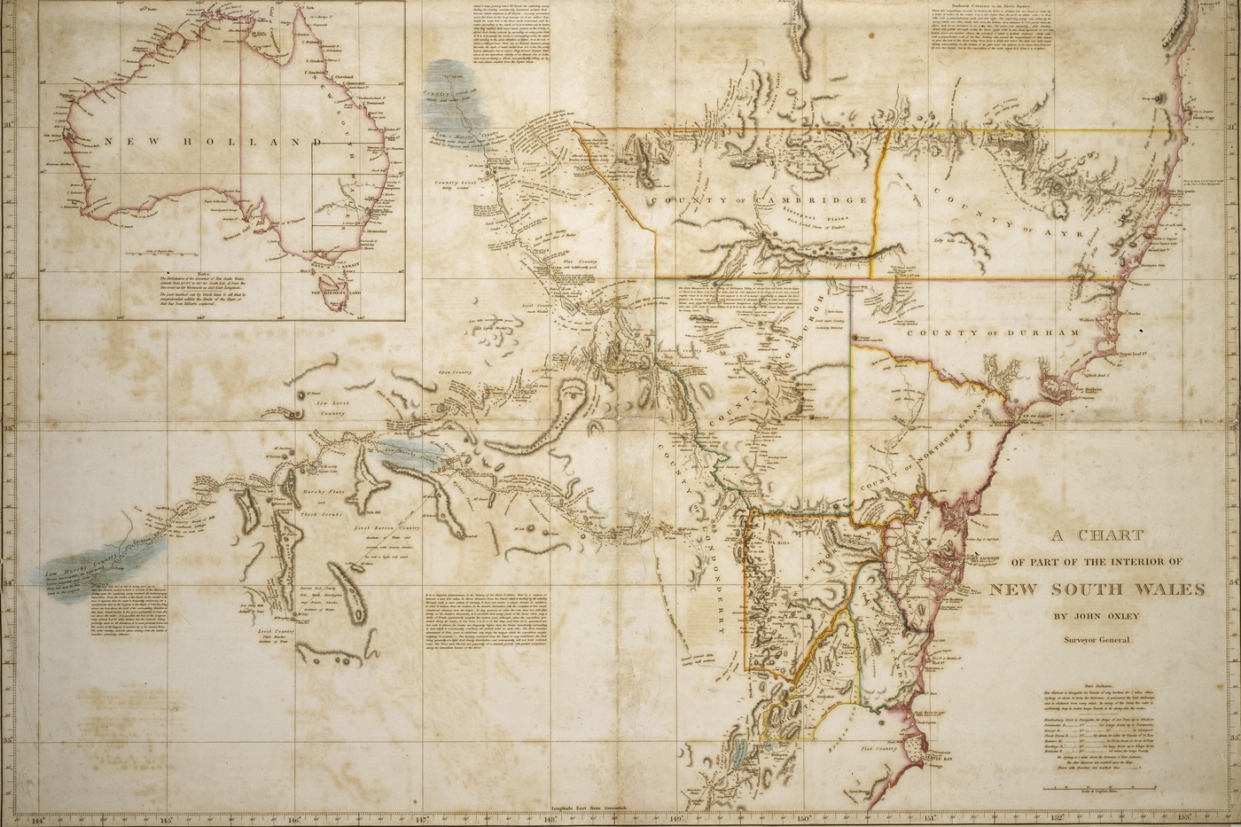 A chart of part of the interior of New South Wales by John Oxley, Surveyor General, London, 30th Jan.y 1822, additions to 1825, published by A. Arrowsmith, Soho Square, Hydrographer to His Majesty, 30th Jan.y 1822, July 1825. Moreton Bay to Port Phillip, and illustrates the exploring routes of William Howe, Meehan, Evans, Cunningham and Oxley between 1817-1823.